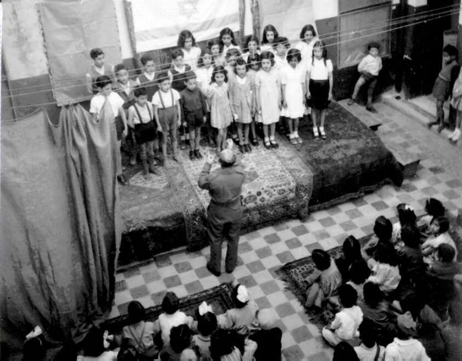 the Jewish School in Benghazi (North Africa), established by Jewish soldiers from Eretz Yisrael. The teachers and students. Topics: Holocaust survivors; schools; soldiers